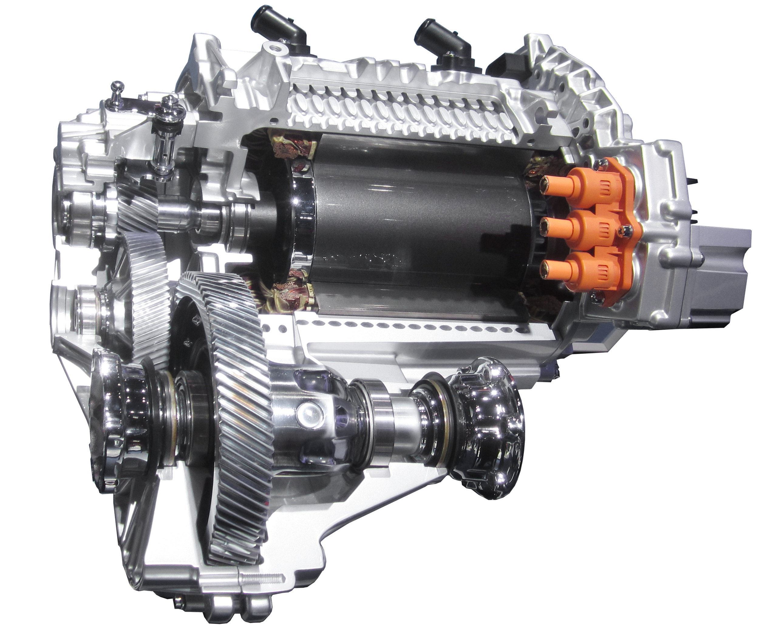 Sectional Model powertrain/engine of the Volkswagen e-Golf (Golf VII), International Motor Show Frankfurt 2015